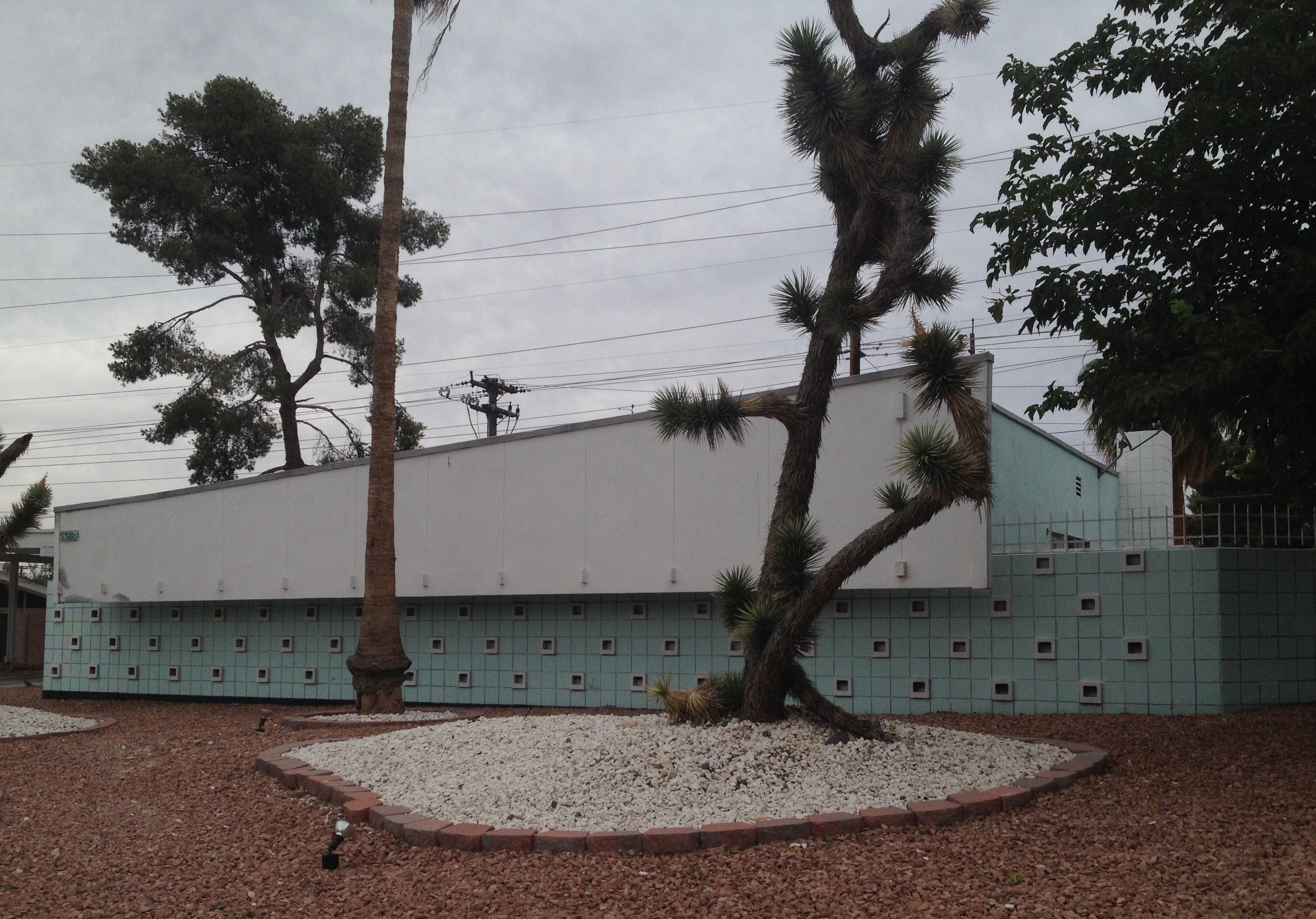 A home in Paradise Palms designed by noted modernist architect William Krisel.